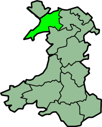 one of the Historic counties of Wales